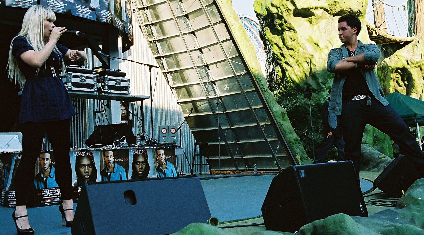 Rory Uphold at the Six Flags Summer Jams Concert with Colby O'donis in Gurnee, Ill